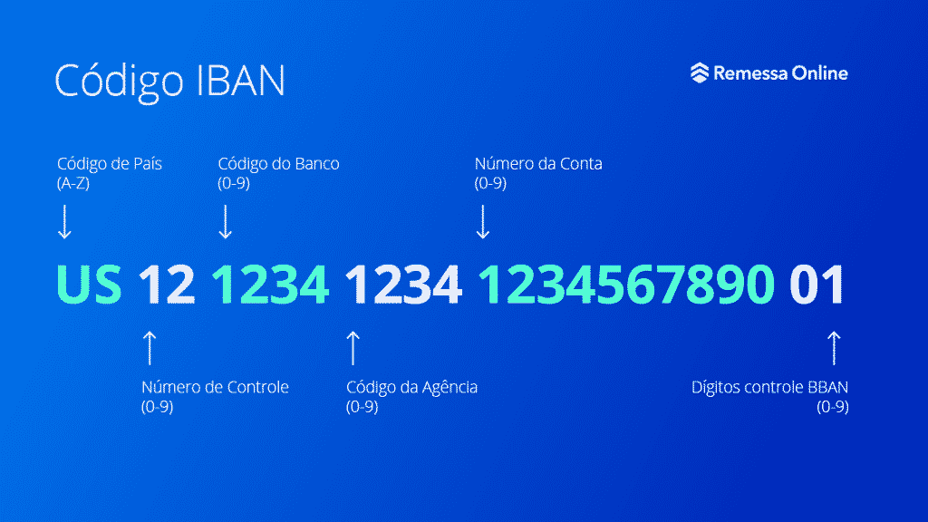 Infographics that shows how the IBAN code is composed